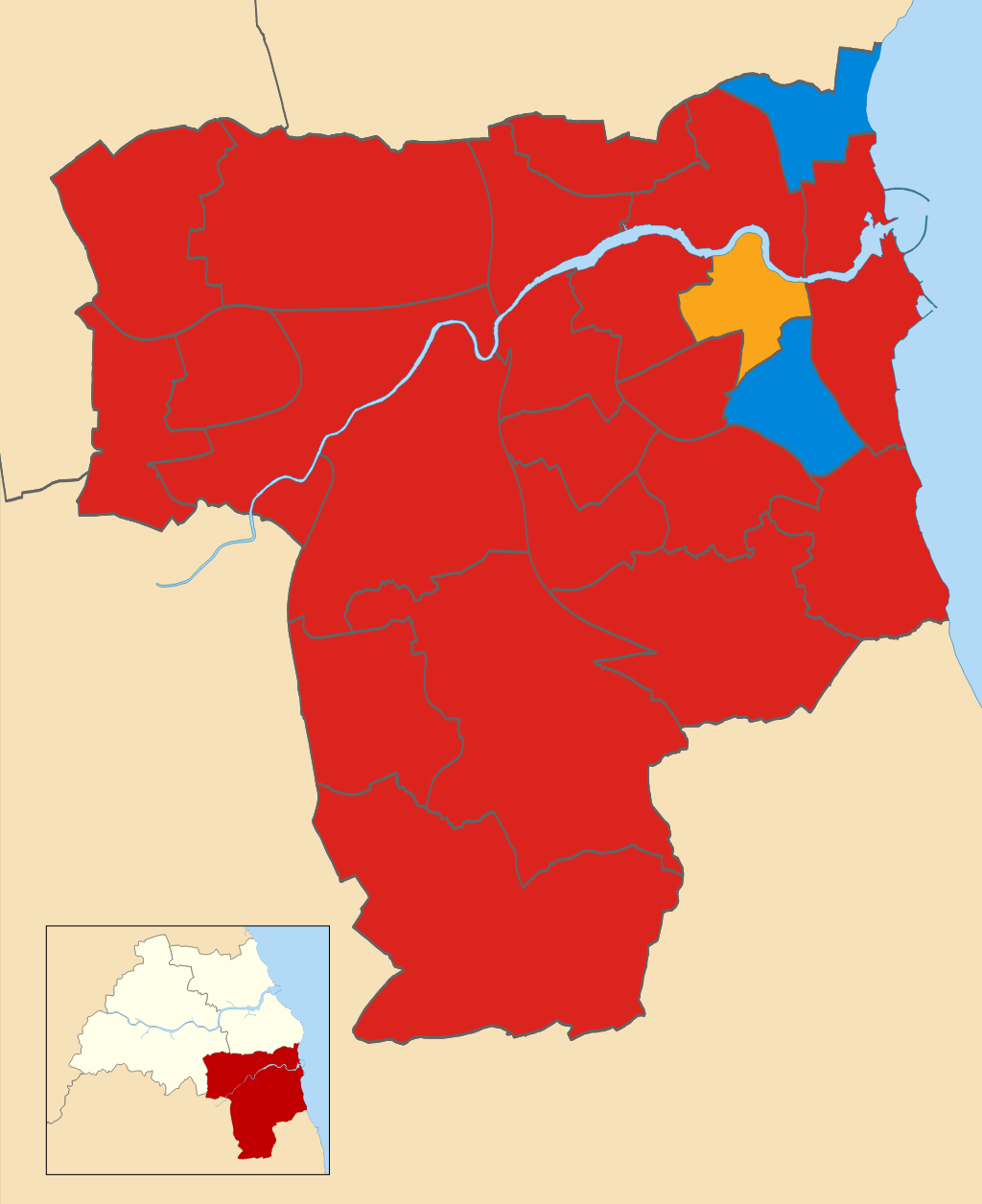 Map of Sunderland showing the results of the 2016 local election